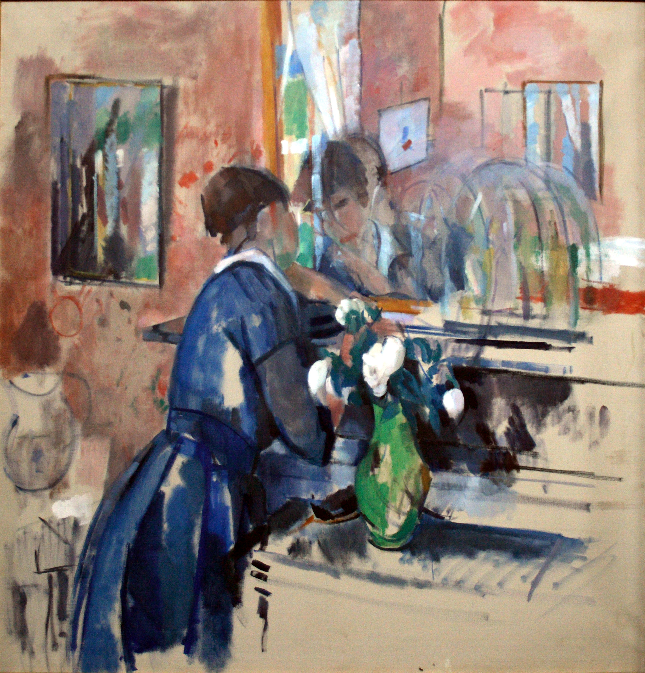 Painting of Rik Wouters in the Koninklijk Museum voor Schone Kunsten (Antwerpen)